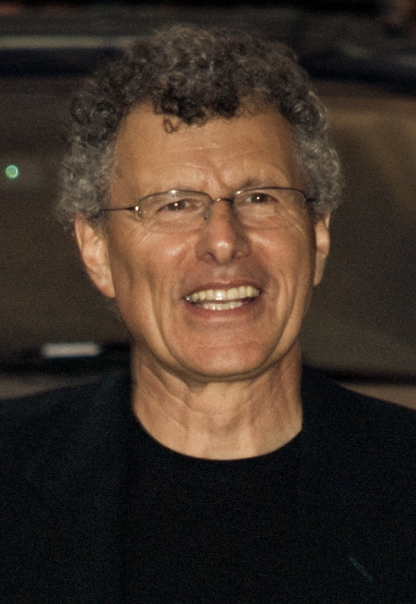 Jon Amiel at the TIFF09 Premiere of "Creation"